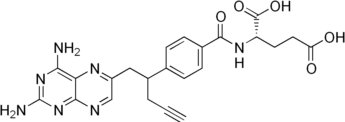 chemical structure of pralatrexate